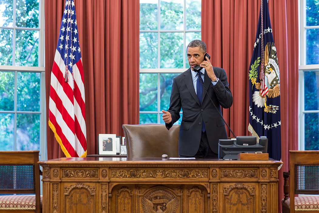 U.S. President Barack Obama talks on the telephone with Oklahoma Governor Mary Fallin following the 2013 Moore tornado (part of the May 18–20, 2013 tornado outbreak) from the Oval Office in the White House.